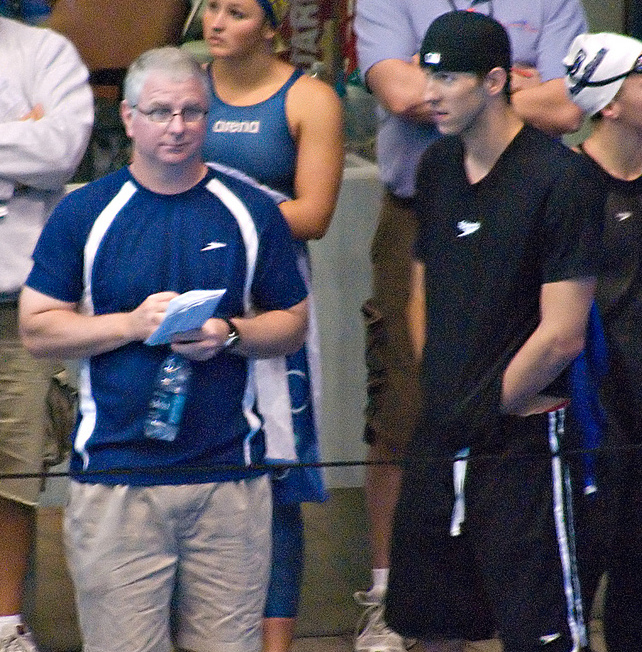 Michael Phelps and his coach Bob Bowman, at US Swimming Trials, Indianapolis, 2009.